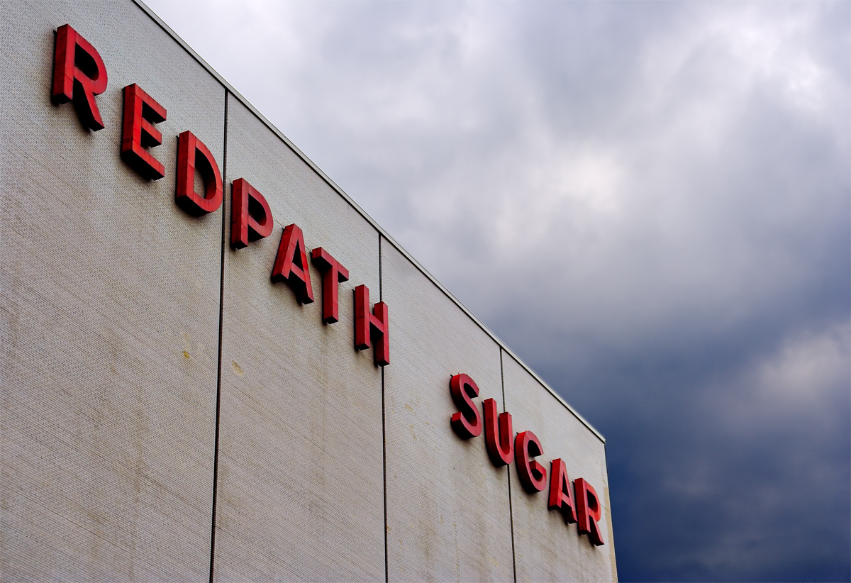 A photograph of the Redpath Sugar Refinery in Toronto, Canada.